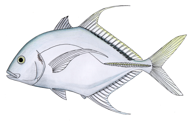 Hand drawn and coloured diagram of the shadow trevally, Carangoides dinema. Based on colour photograph by JE Randall at Fishbase